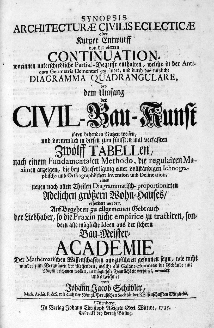 „Synopsis Architecturae Civilis eclecticae“. Historical, illustrated text-book of architecture. Volume 4, title-page.